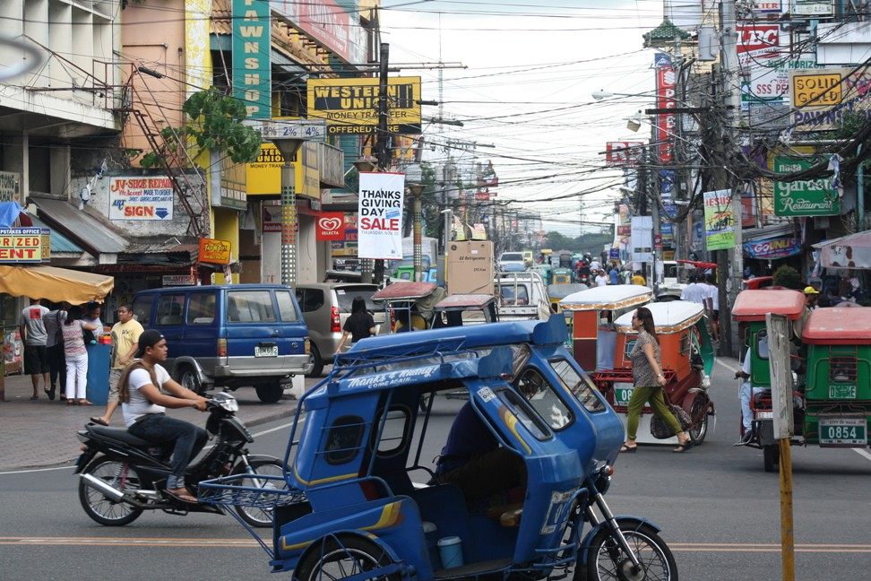 Panganiban Avenue